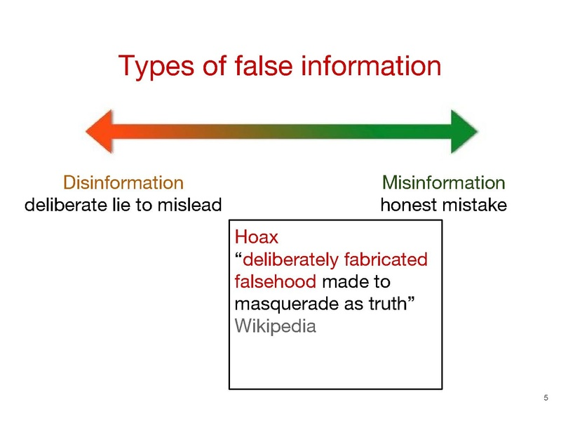 Disinformation vs Misinformation - slide 5 out of 31 from: Slides for "Disinformation on the Web: Impact, Characteristics, and Detection of Wikipedia Hoaxes" presentation in Wikimedia research showcase. Presented for Wikimedia Research (18 November 2015). Research project at Research:Understanding hoax articles on English Wikipedia.